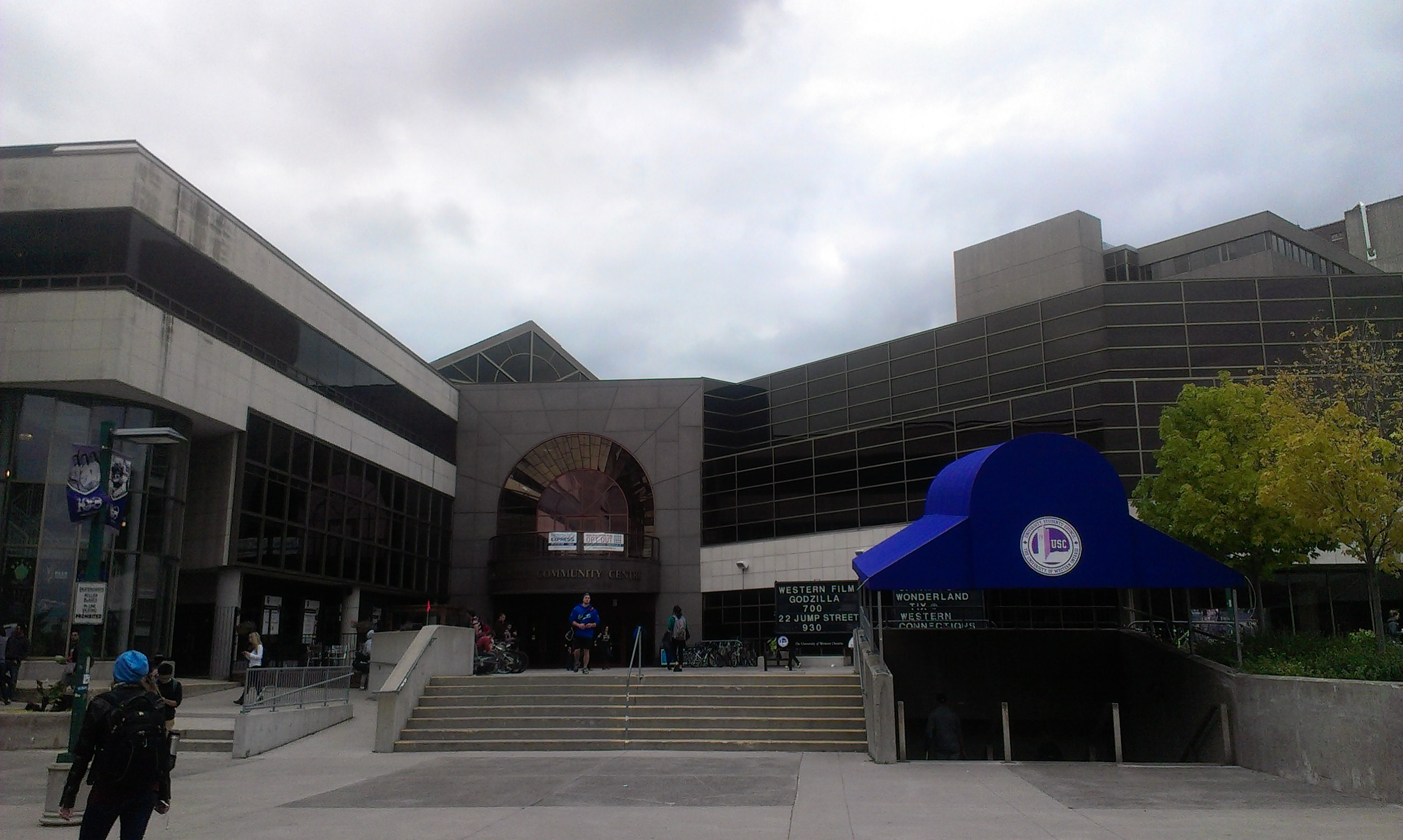 University Community Centre at the University of Western Ontario